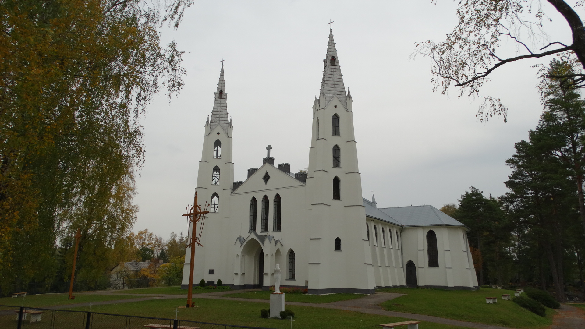 Roman Catholic Church, Krikštonys, Lazdijai district, Lithuania